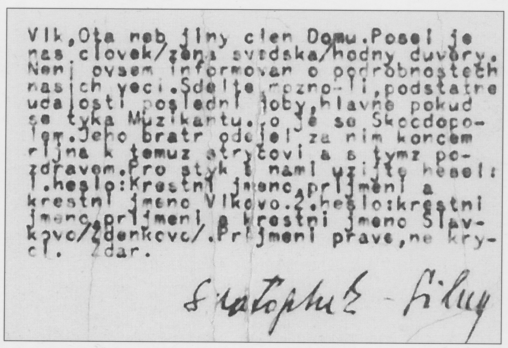 Message of the Minister of National Defence of the exile government of General Sergej Ingr (nickname Svatopluk) dedicated to main man of Czech illegal organisation Defence of the Nation. The addressee should be Colonel Josef Churavý (nickname Wolf) or Václav Morávek or other person from Defense of nation. The message in the form of a micrograph (size of several millimeters) was originated in December 1941, when after the attack on communication center in Prague - Jinonice (4 October 1941) was interrupted radiotelegraph links between Prague and London.